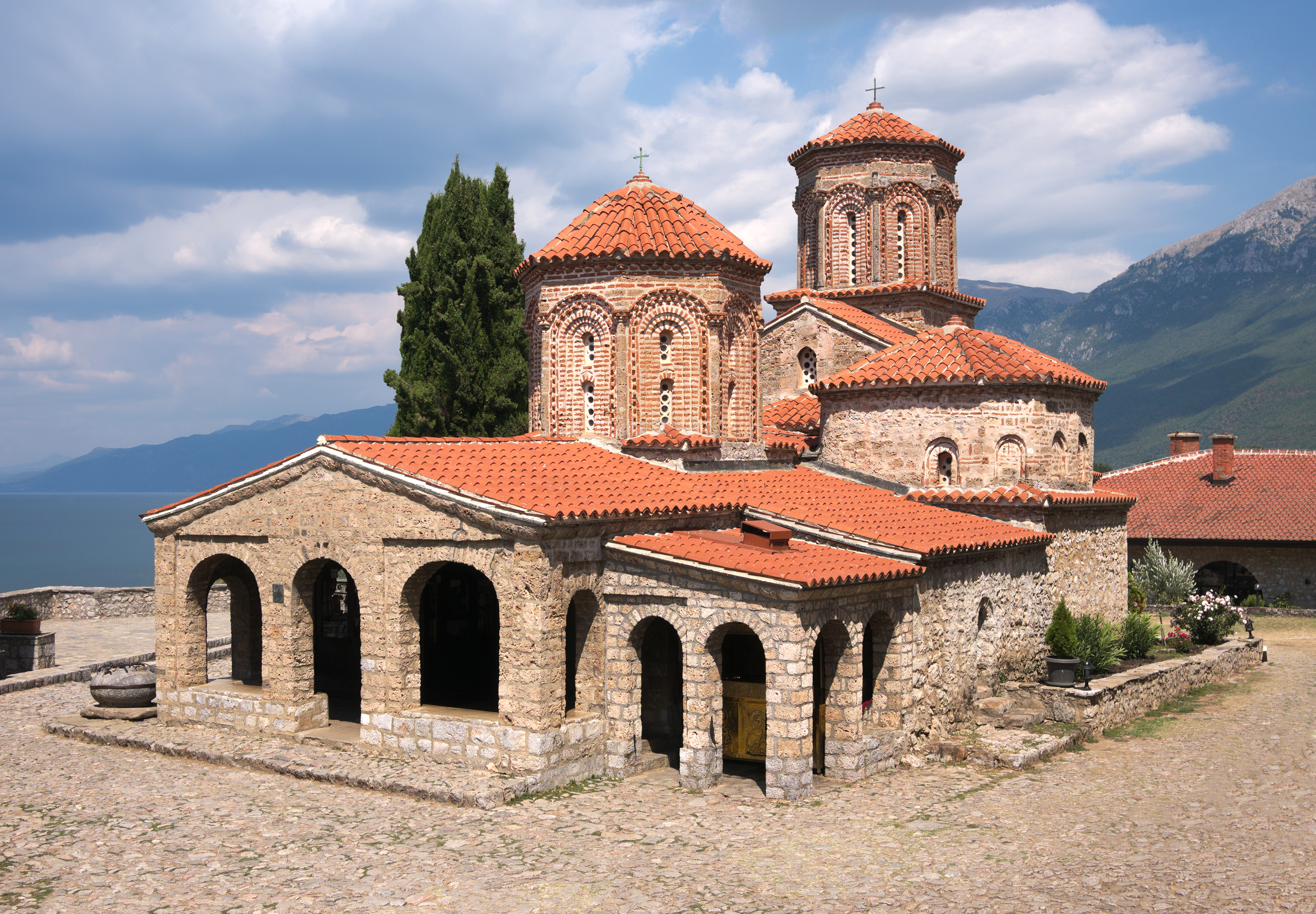 Saint Naum Monastery (Sveti Naum) near Ohrid, Republic of Macedonia. Church was built in year 900-905 by Naum, who is buried in this church. Legend has it that you can hear St. Naums heart beating on his tombstone. This photograph was taken with a Panasonic Lumix DMC-G85/G80